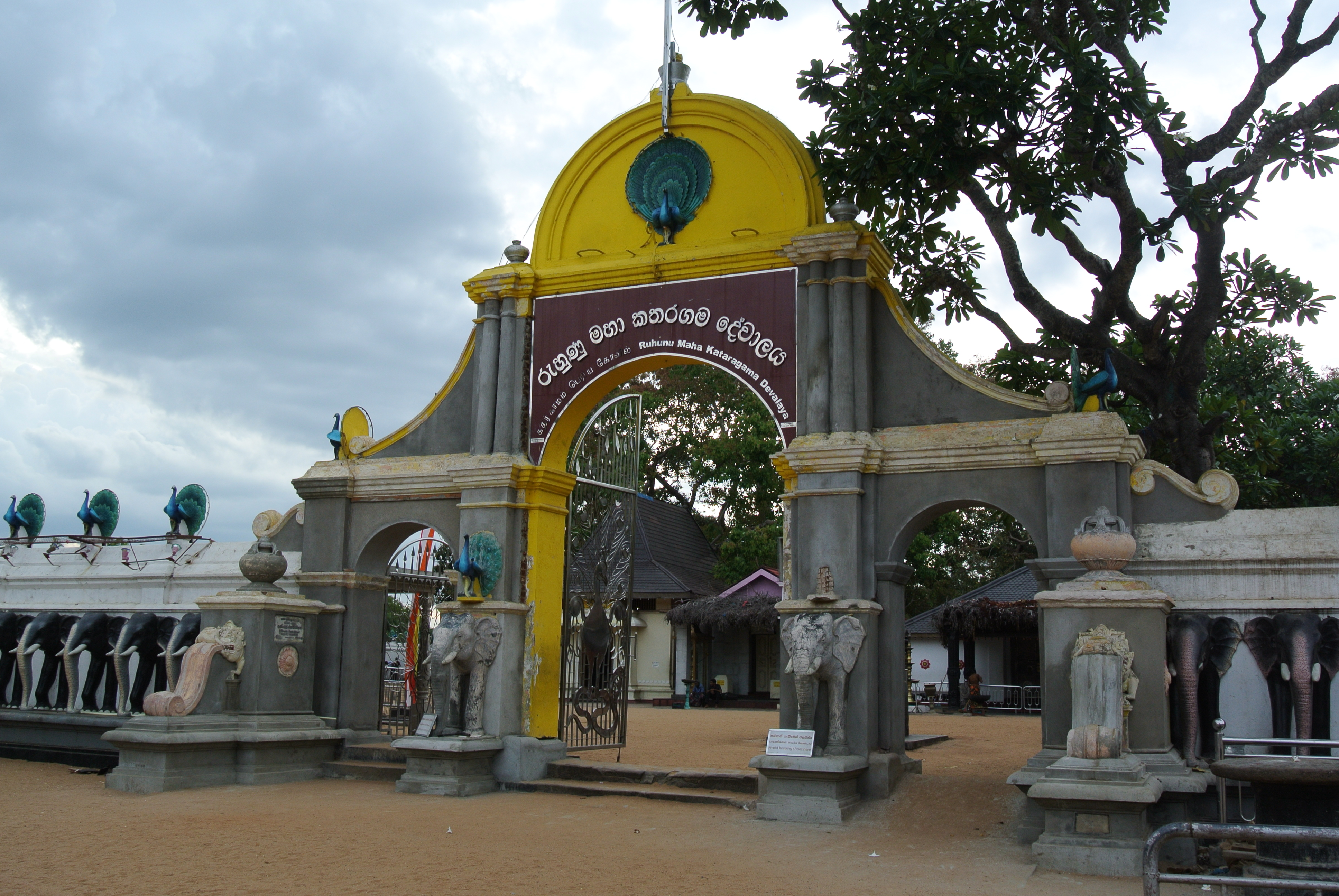 Entrance to the temple complex in Kataragama, Sri Lanka Nikon 1 V1 + 1 Nikkor VR 10-30mm f/3.5-5.6